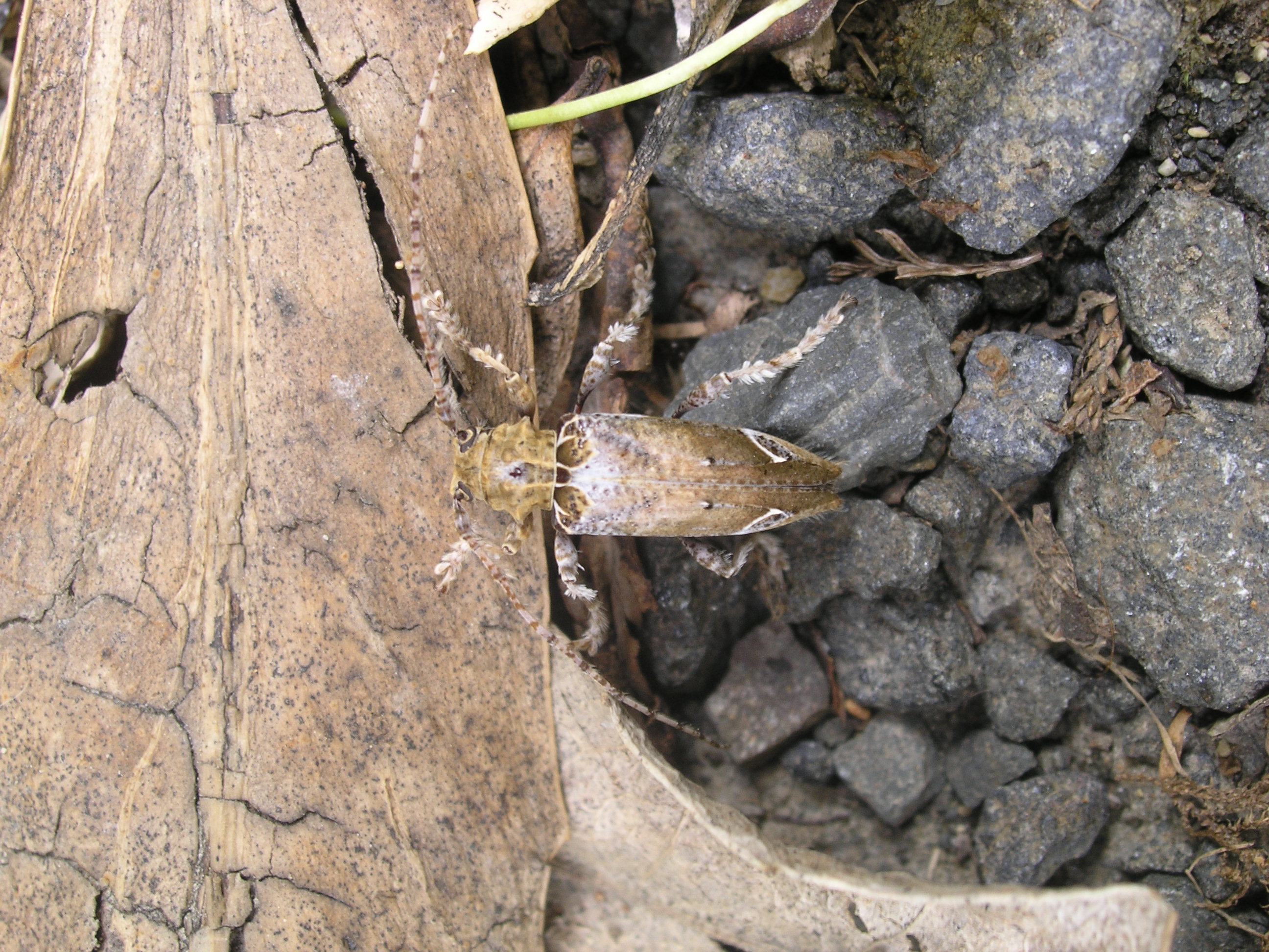 Tetrorea cilipes (Hissing Longhorn)